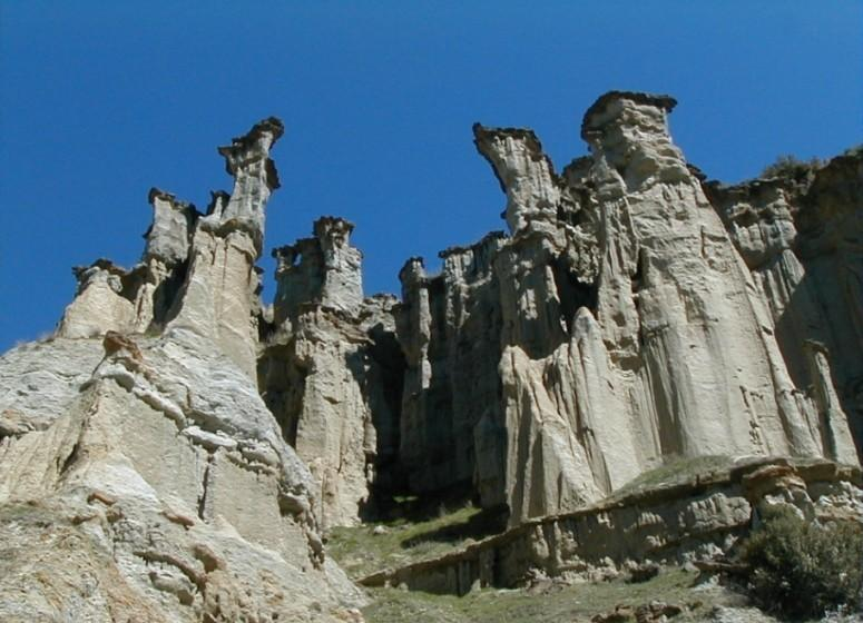 en: Volcanic rock formations of Yanıkyöre (ancient Katakekaumene) near Kula, Manisa, Turkey